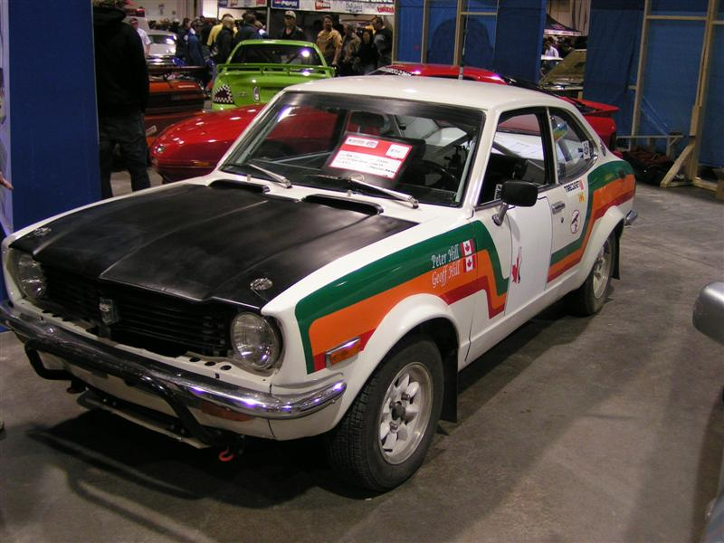 1973 Toyota TE27 Corolla Rally Car - 2.0L four cylinder 2T engine with twin 40-DCOE Webers carbs. Nice info page